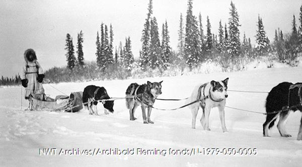 Lucy Nersoo [Nerysoo] with a team of dogs, Aklavik, 1943. no fallback page found for autotranslate (base=NWT, lang=en)